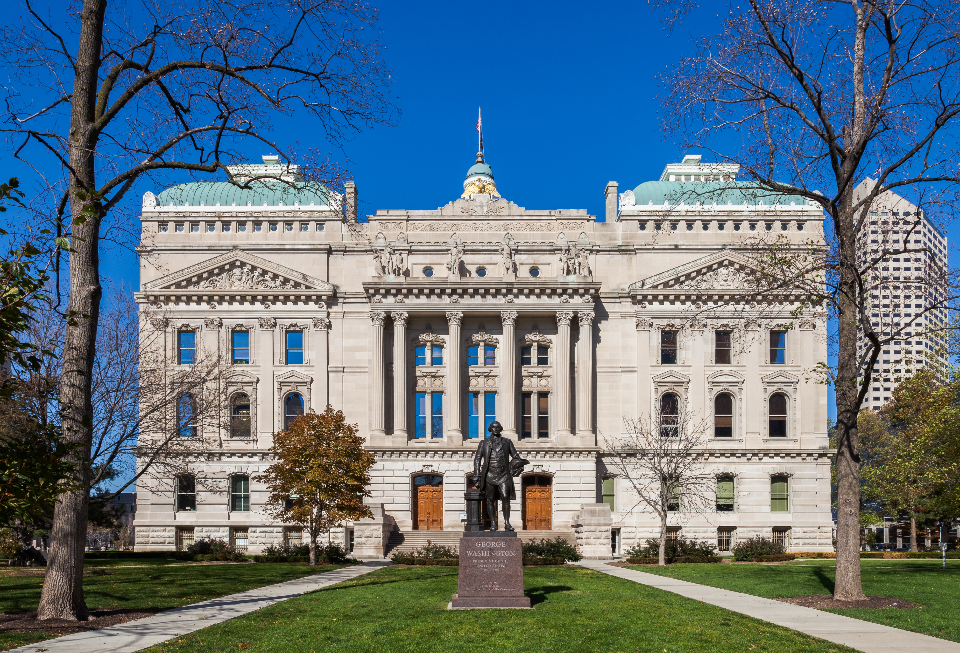 View of the South end of the Indiana Statehouse, the state capitol building of the U.S. state of Indiana. The building, built in 1888, houses the Indiana General Assembly, the office of the Governor of Indiana, the Supreme Court of Indiana, and other state officials. The building it is located in Indianapolis, the state capital.